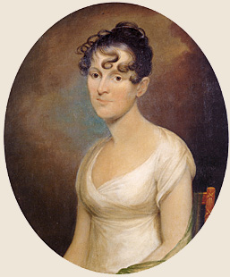 Portrait of Elizabeth Wirt, painted ca. 1809–10 by Cephas Thompson.